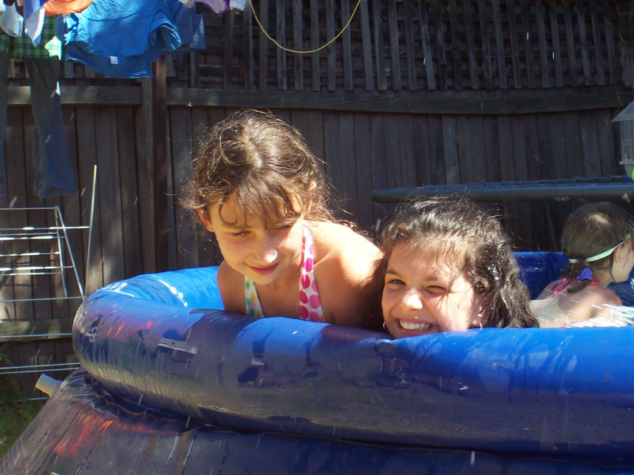 Christmas 2005More swimming